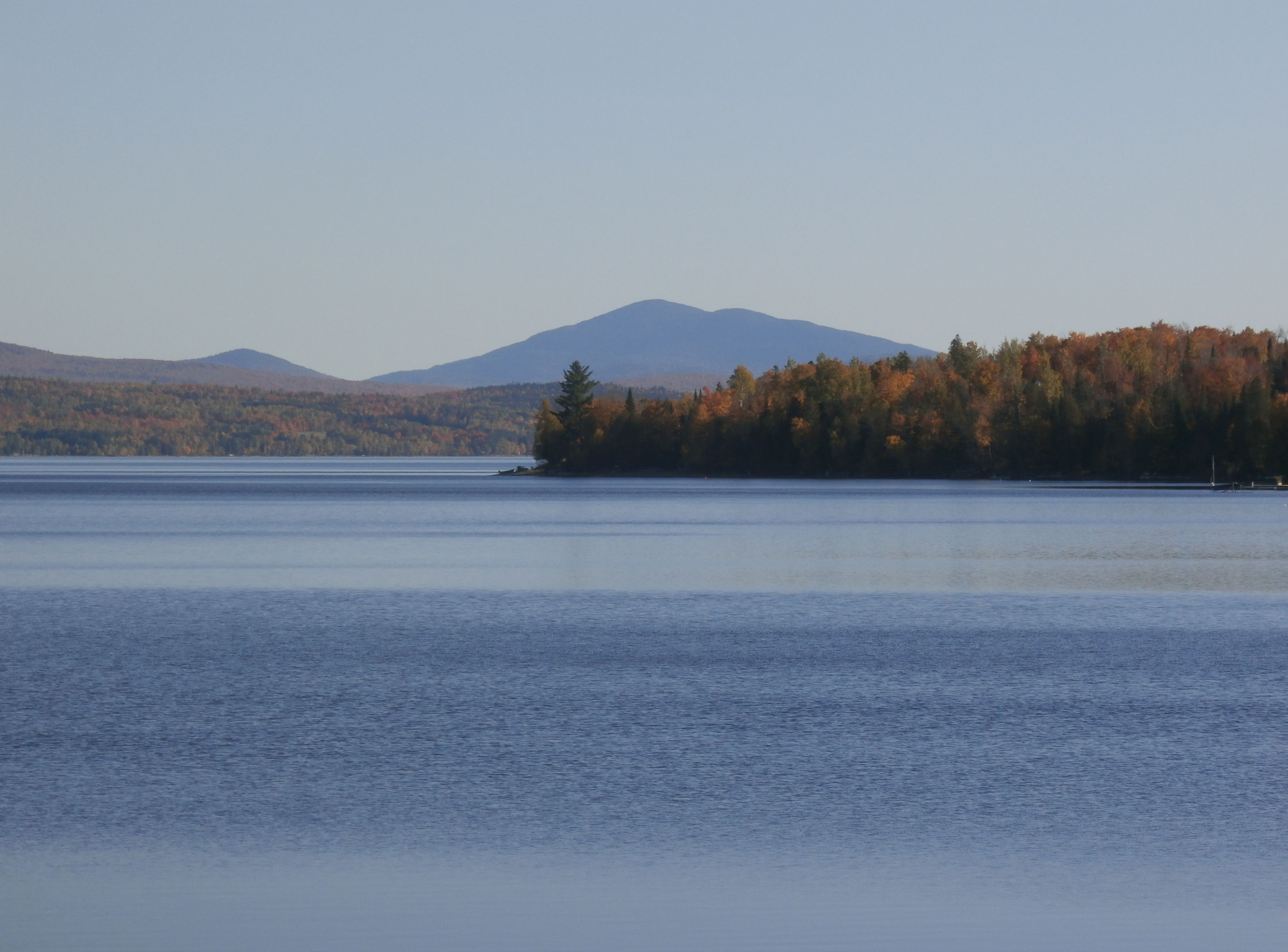 Snow Mountain, in Maine U.S.A. view from Lake Megantic Quebec.